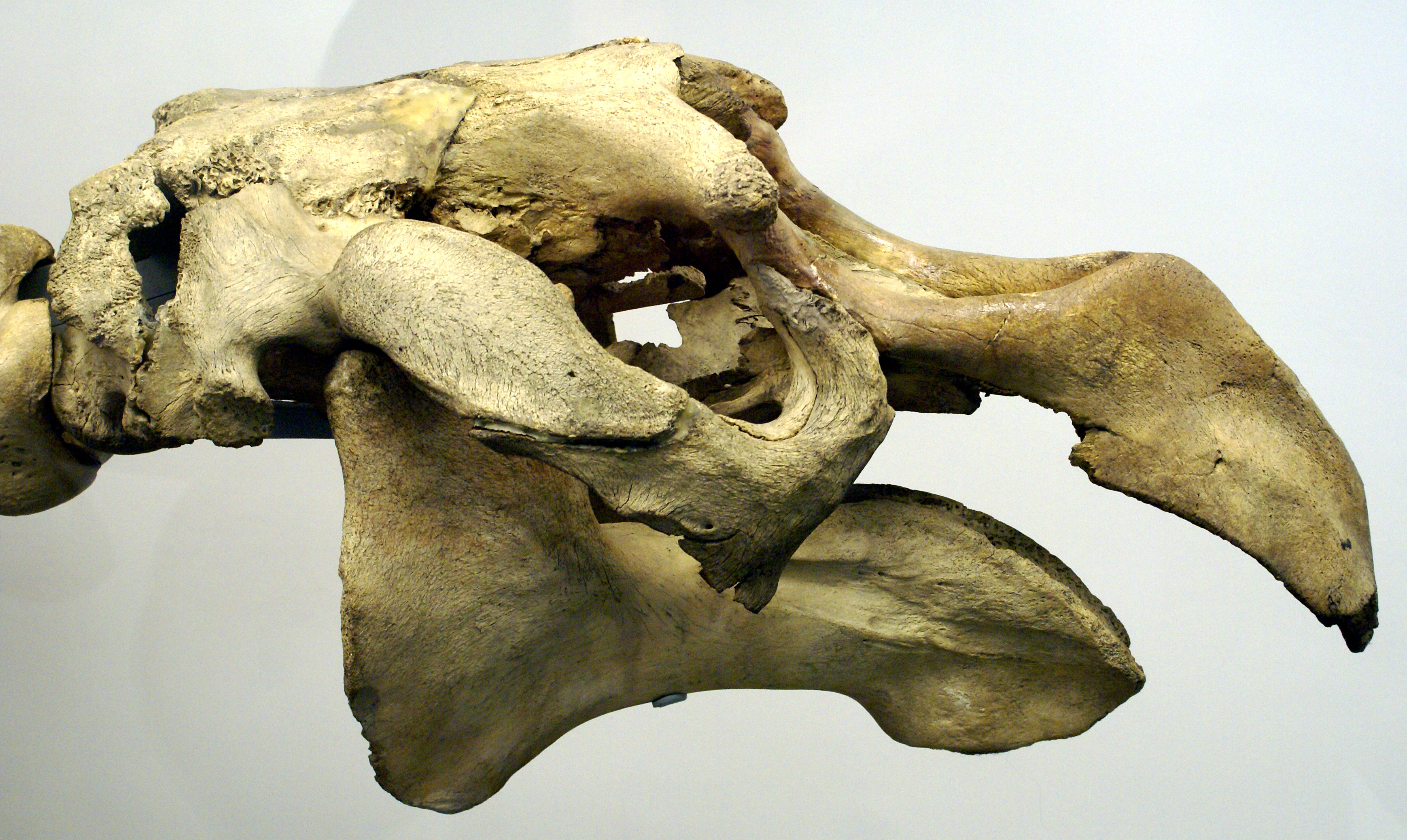 Skull of Steller's Sea Cow (Hydrodamalis gigas), Natural History Museum of London.